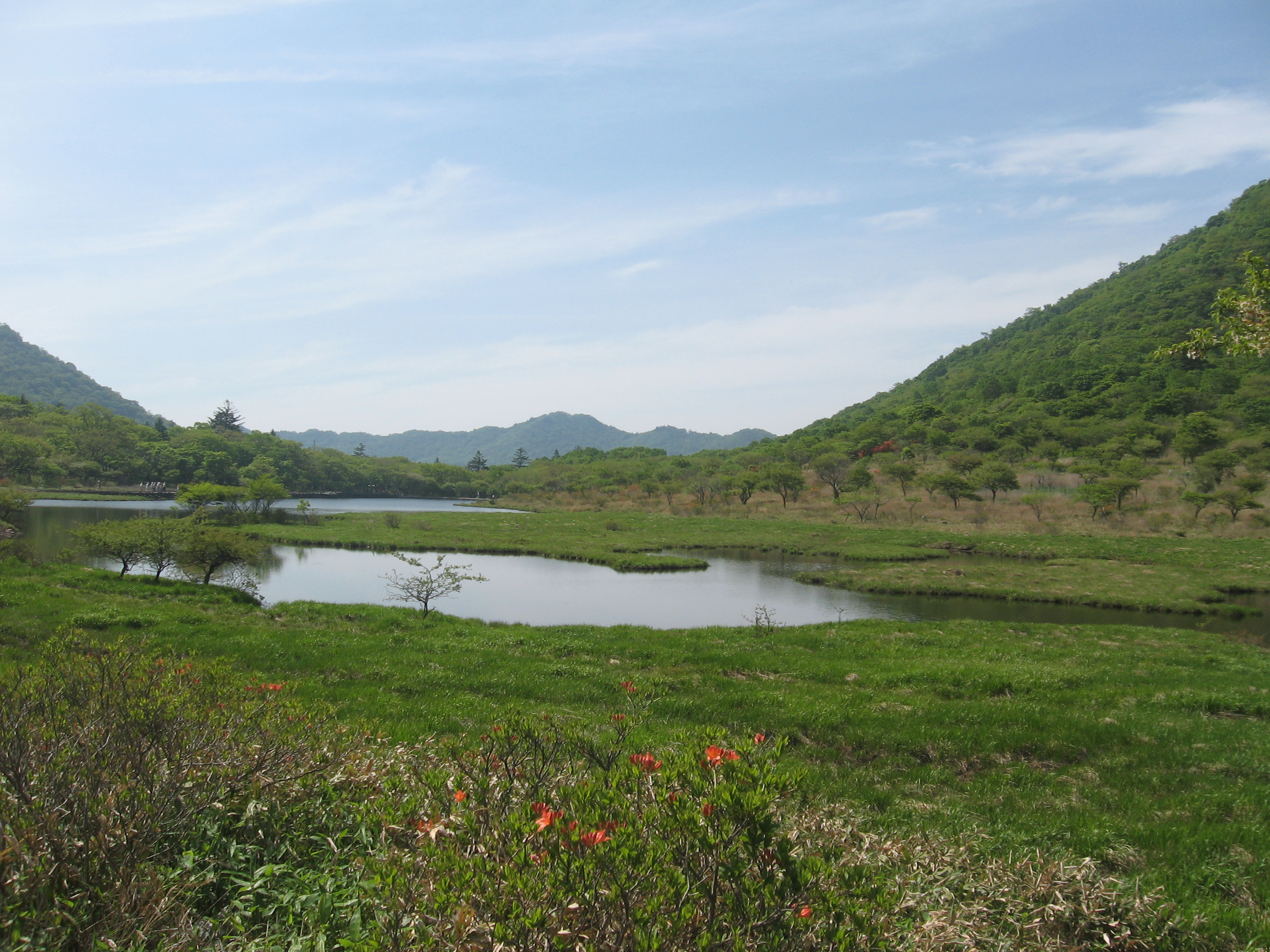 Kakumanbuchi wetland in Mount Akagi